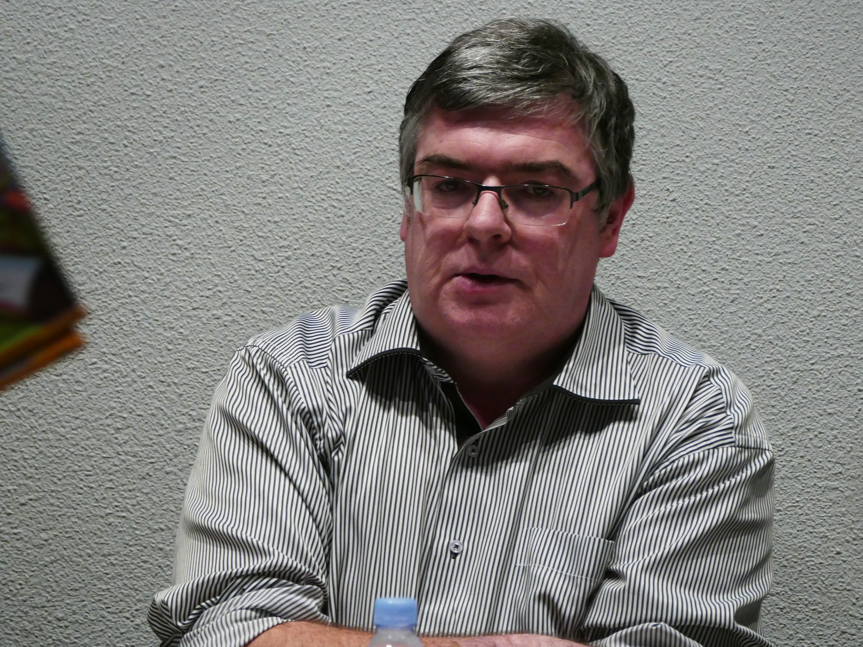 Yves Chiron at Salon du livre et de la famille in Paris (Île-de-France, France).